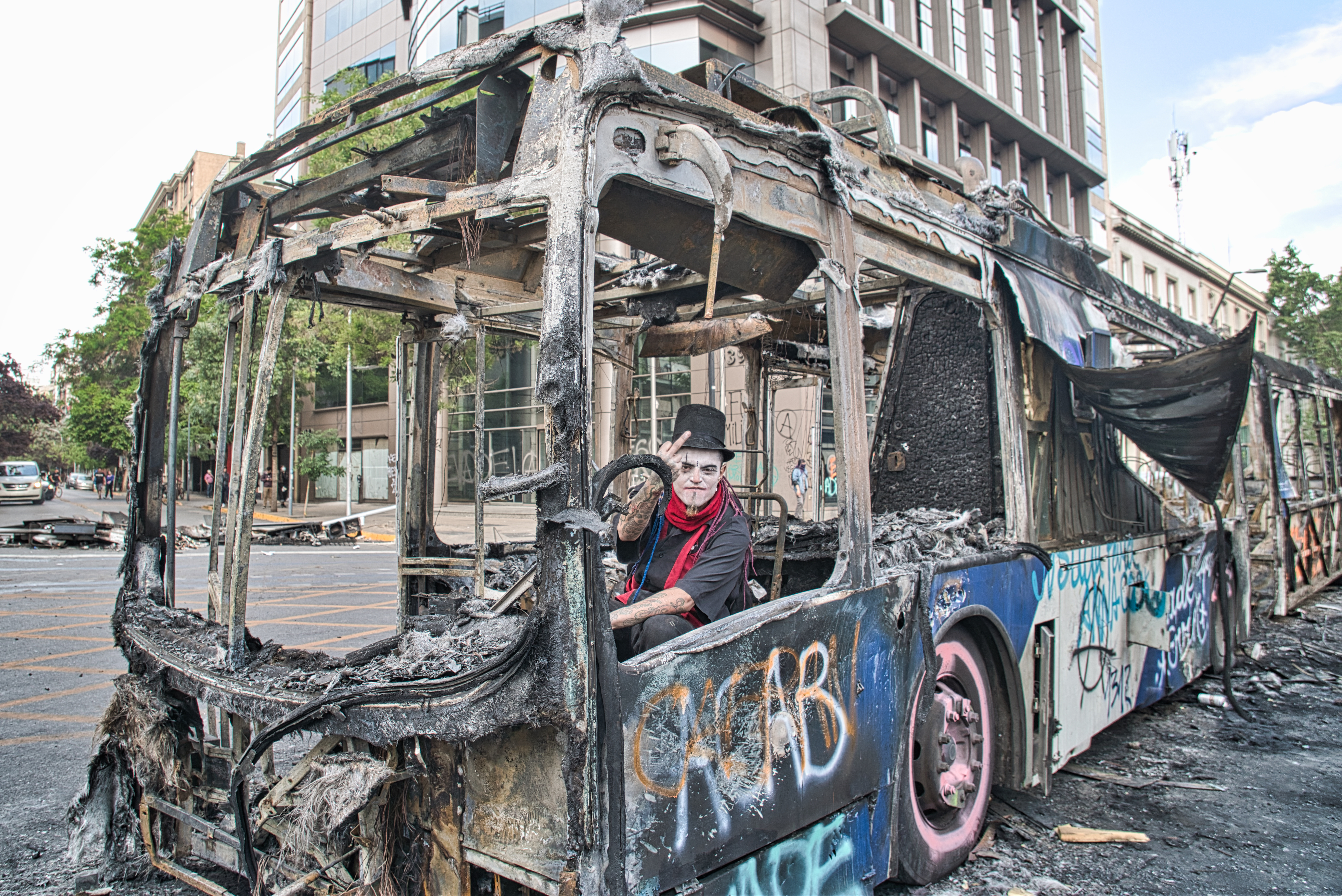 Bus del Transantiago quemado durante las protestas en Santiago.